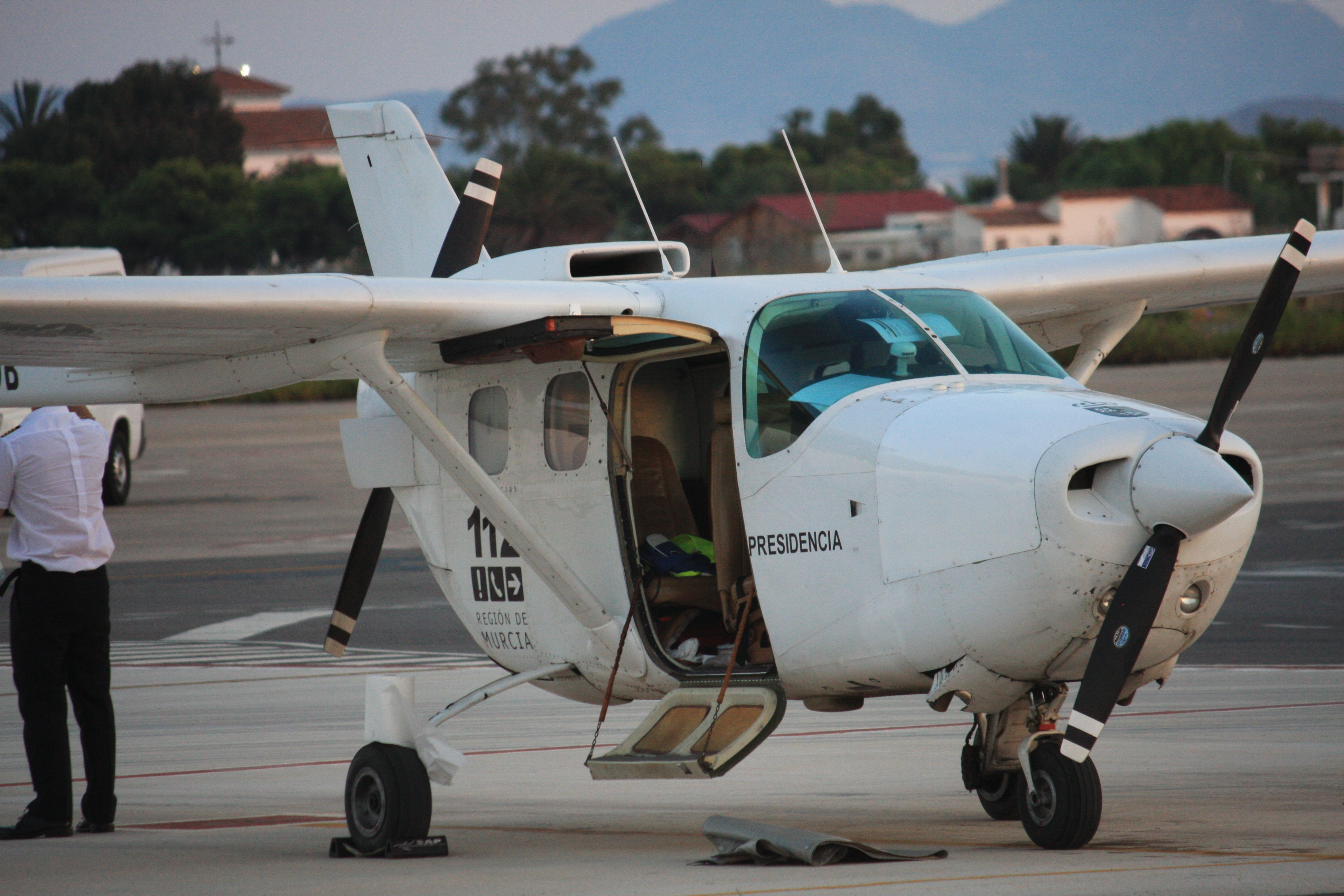 Murcia - San Javier (MJV / LELC) Spain, September 1, 2013